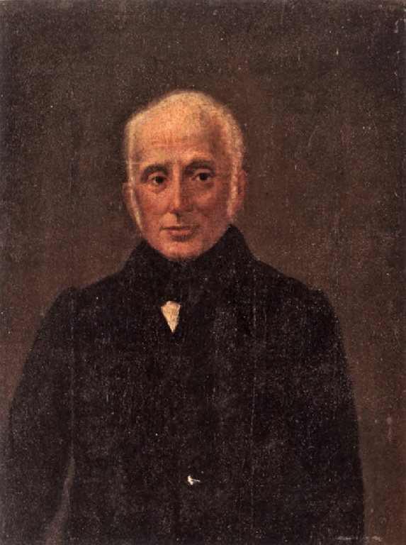 Portrait of P.Stefanou